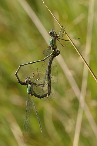 Picture taken in Commanster, Belgian High Ardennes . Species: Lestes viridis couple